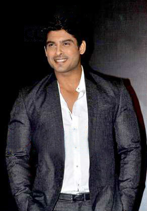 Sidharth Shukla at Colors' party